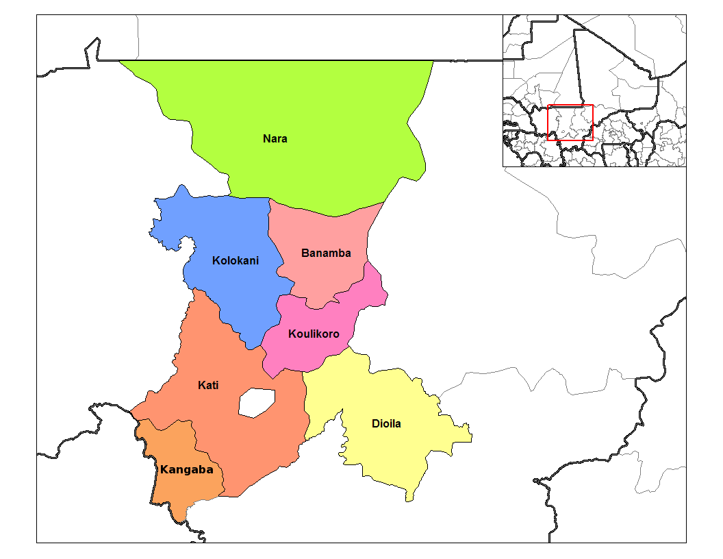 Map of the cercles of Koulikoro region in Mali. using MapInfo Professional v8.5 and various mapping resources.